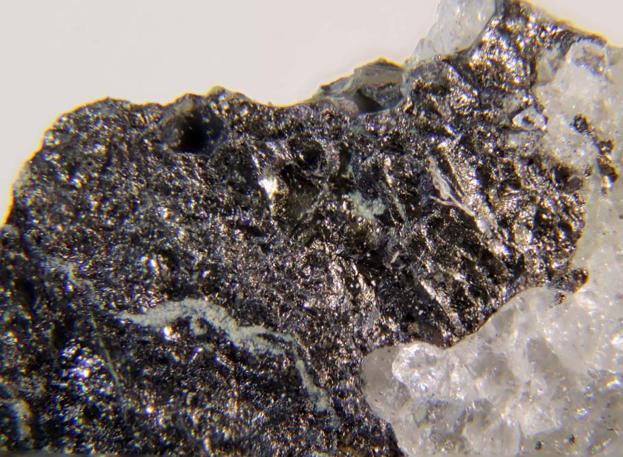 Outstanding crystals and crystal aggregates of the very rare mineral ferroselite (the selenium analog of marcasite) from a little known locality in Argentina characterized by its selenides: El Quemado, General Lamadrid Department, La Rioja, Argentina.